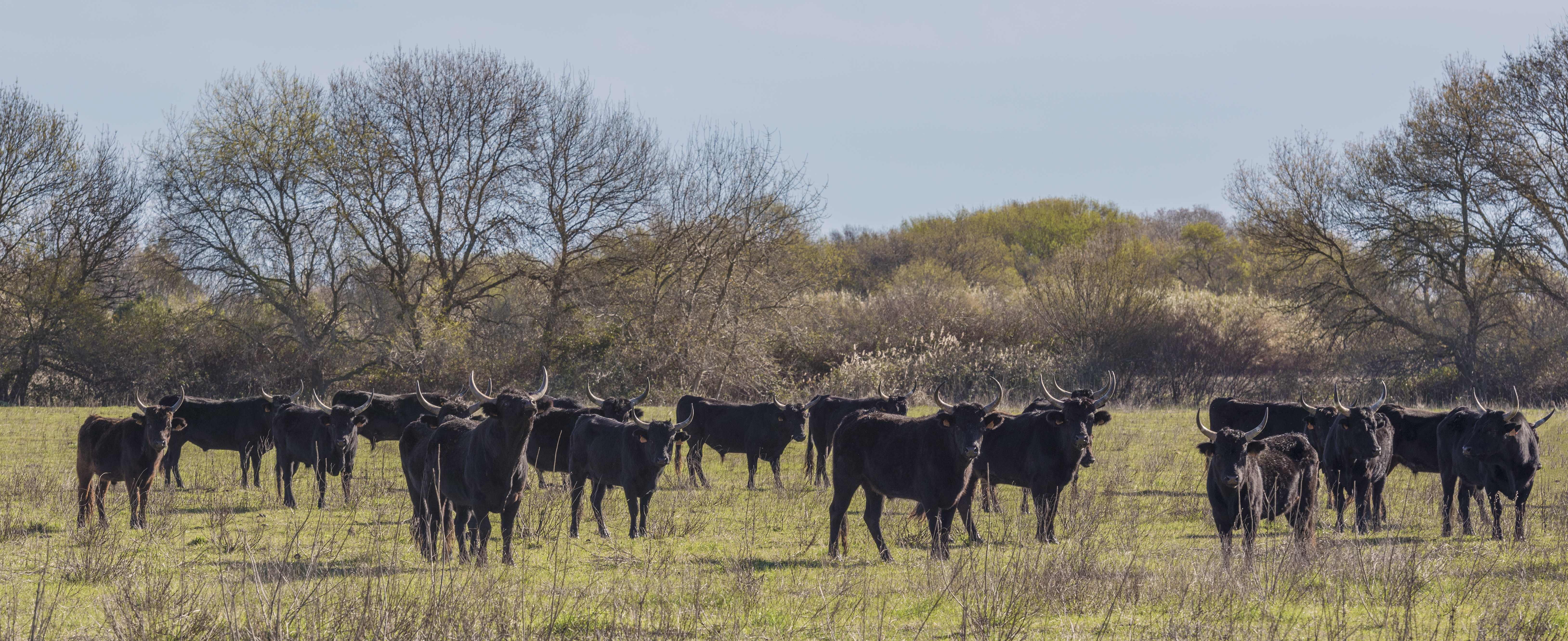 Camargue cattles in the commune of Saint-Gilles, Gard, France.Hard to believe it or not, these semi-wild animals move with you so as to remain between you and the sun. They keep the sun at their backs and it is you who have the sun in your eyes ...